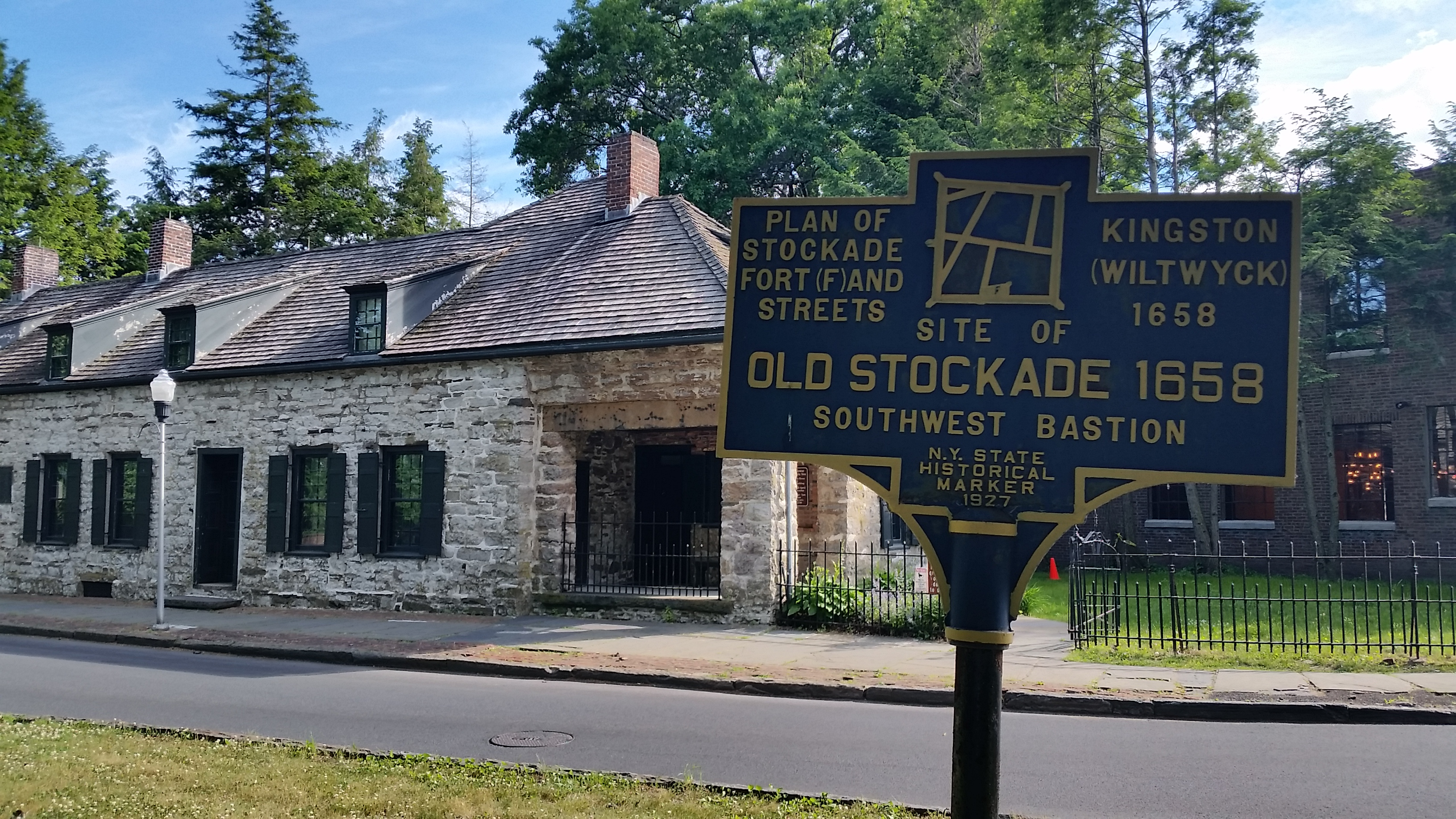 New York State historical marker for the plan for the old stockade in Kingston, NY